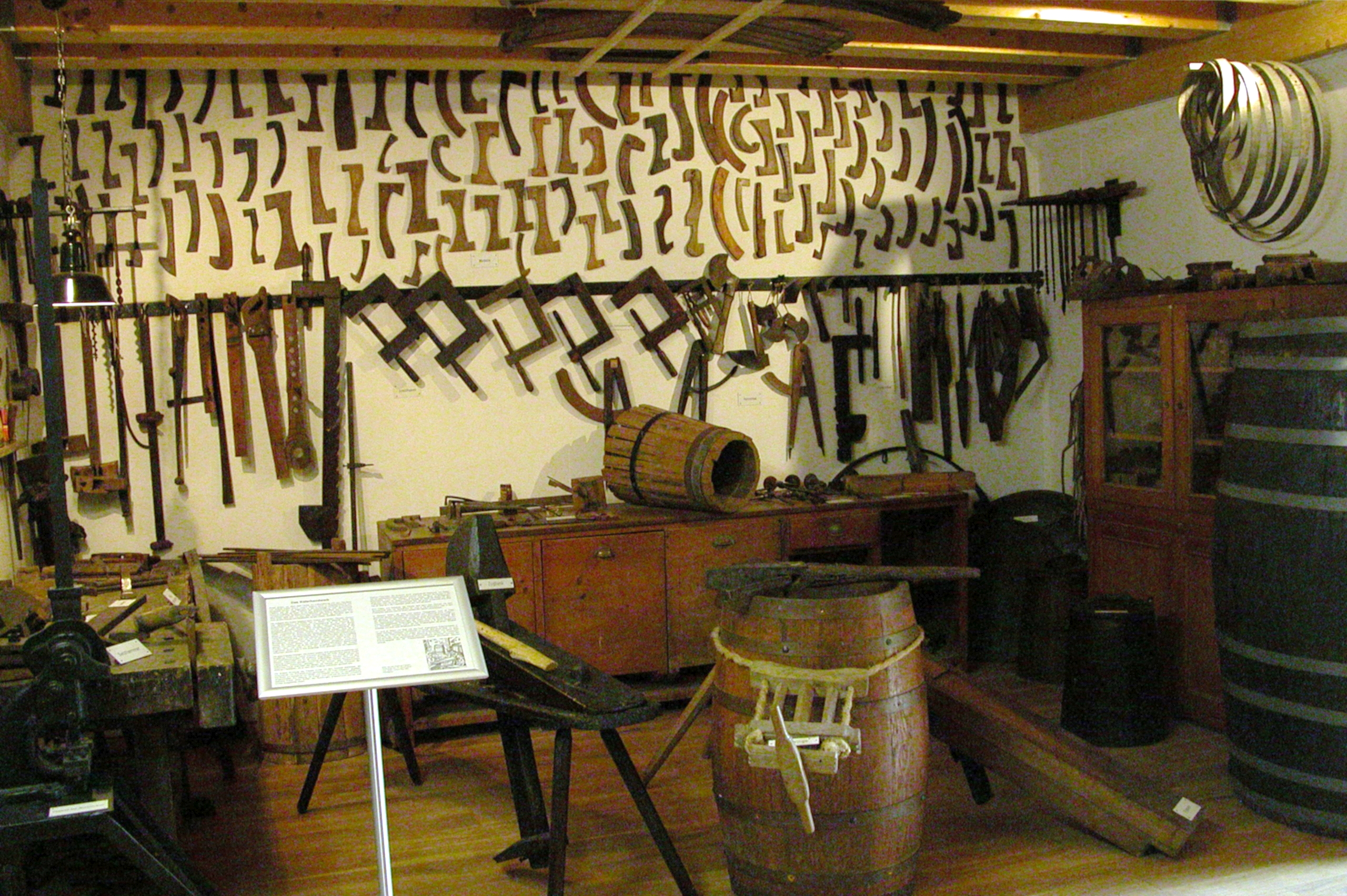 Cooper's workshop, Open air museum Roscheider Hof, Konz, Germany